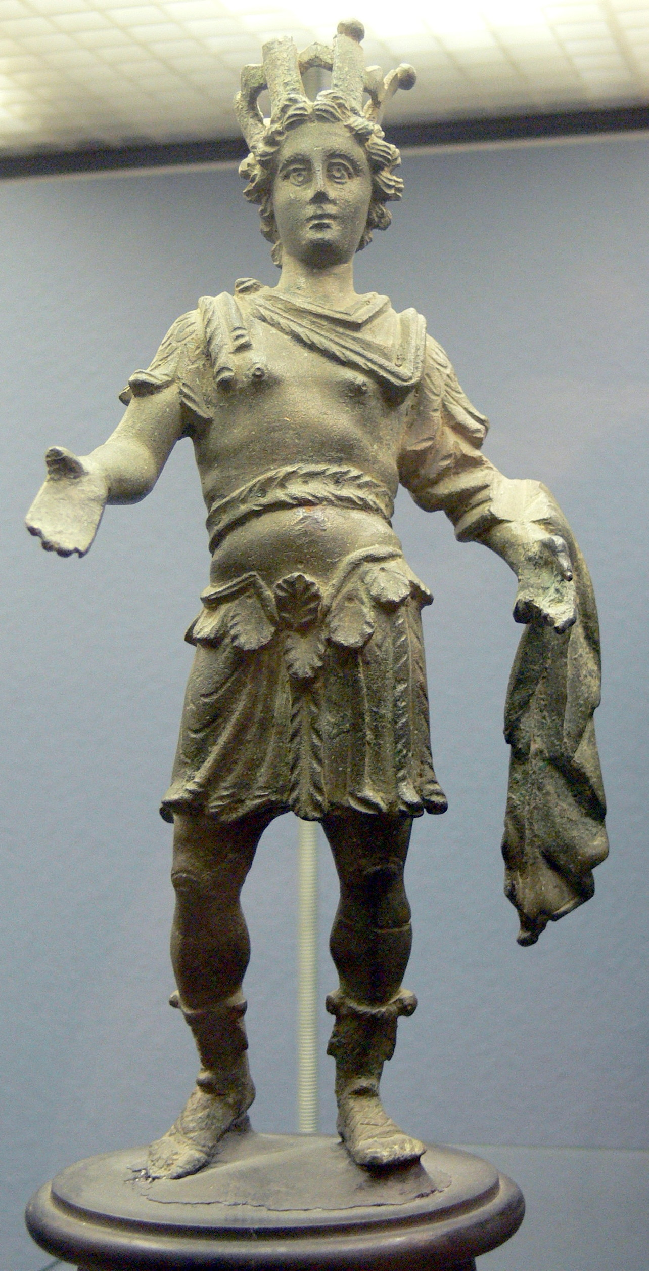 Enns ( Upper Austria ). Museum Lauriacum: Bronze statue ( 2nd/3rd century AD ) of the genius of a legion.